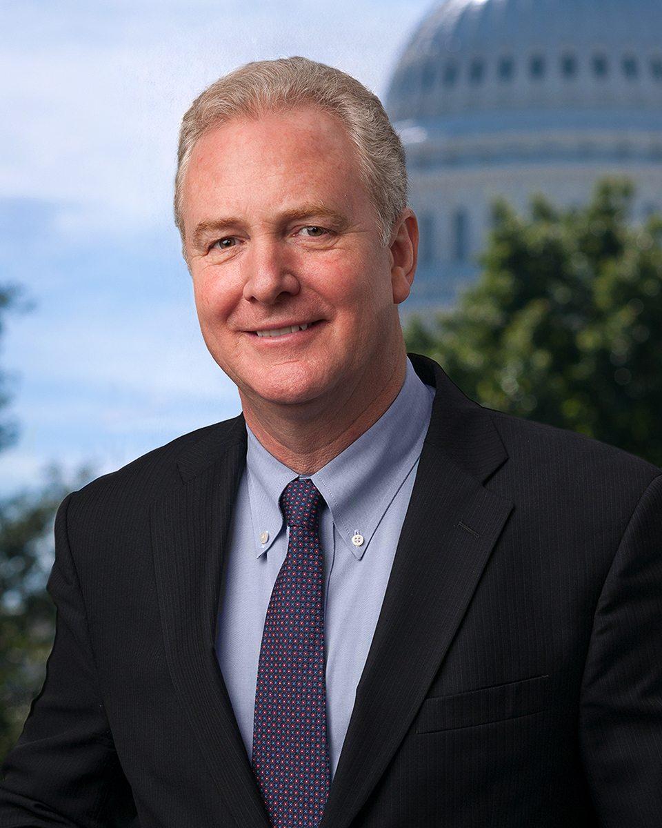 Senator Chris Van Hollen of Maryland